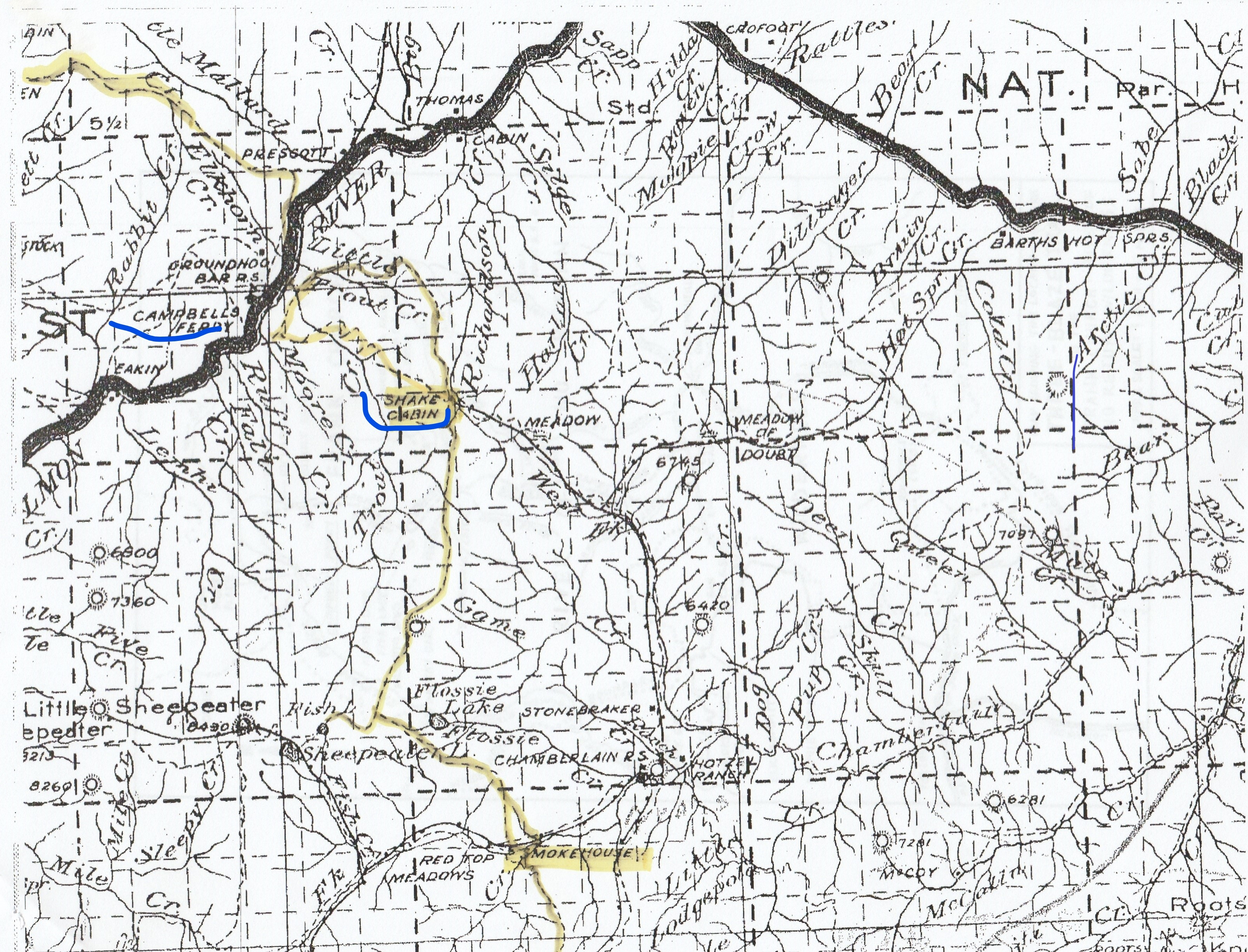 Photo of National Forest Map of unknown age showing a trail from Campbell's Ferry to Shake Cabin, which was described as the Three Blaze Route.